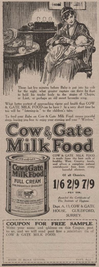 Page 276 of the 16 November 1923 edition of The Radio Times, featuring adverts for Cow & Gate, and for TMC Headphones.